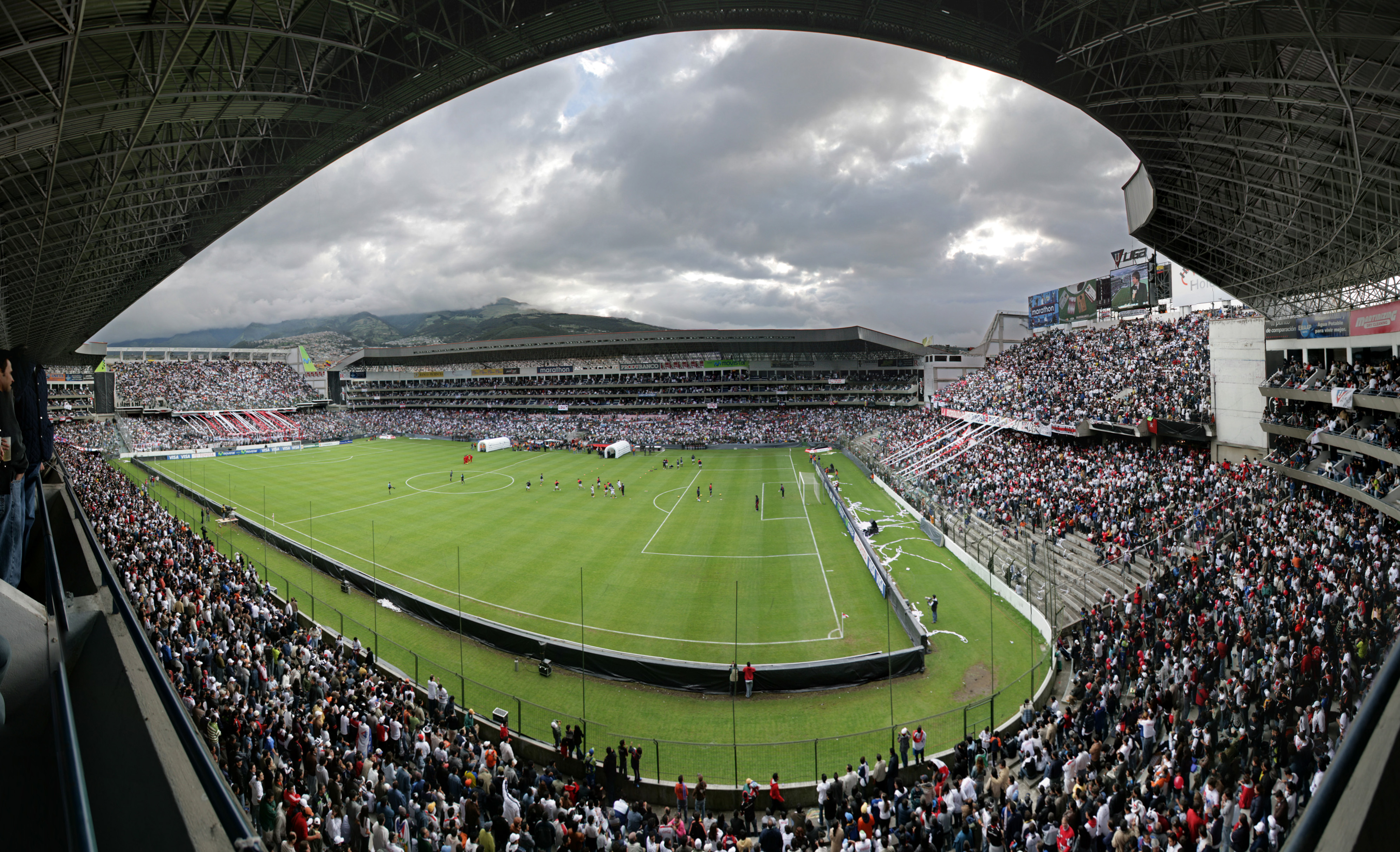 A wide angle shot from the inside of "Estadio de Liga Deportiva Universitaria" (also known as "La Casa Blanca") The picture was taken from one of the boxes before the game against San Lorenzo, during the quarter final games of Copa Libertadores 2008